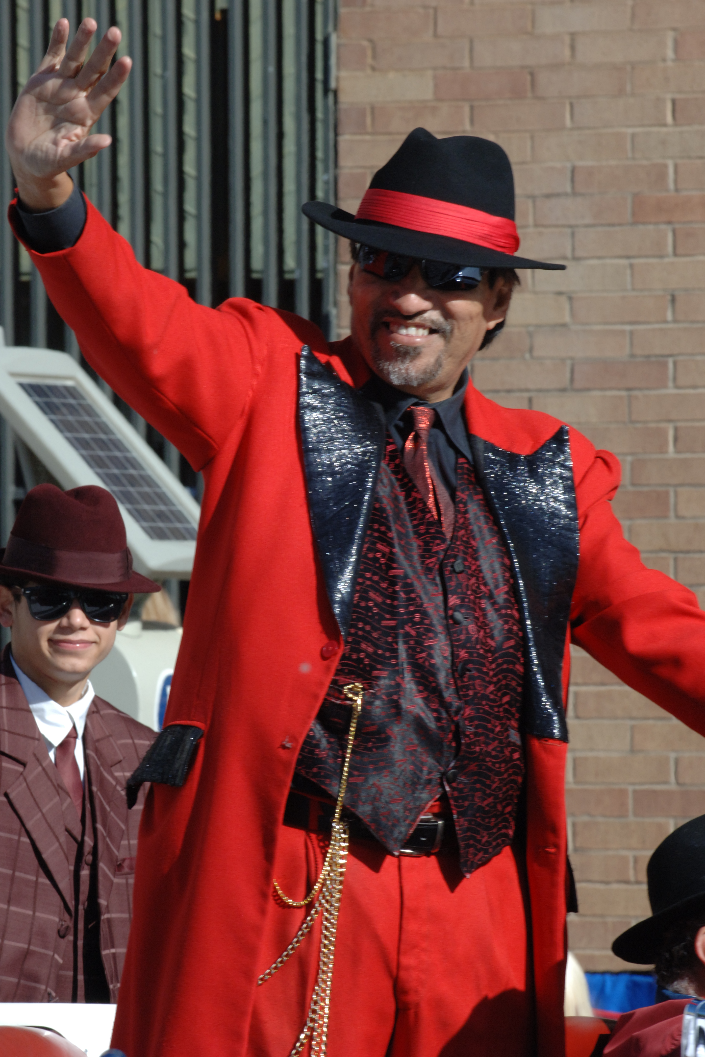 Pancho Claus in downtown Houston, Texas